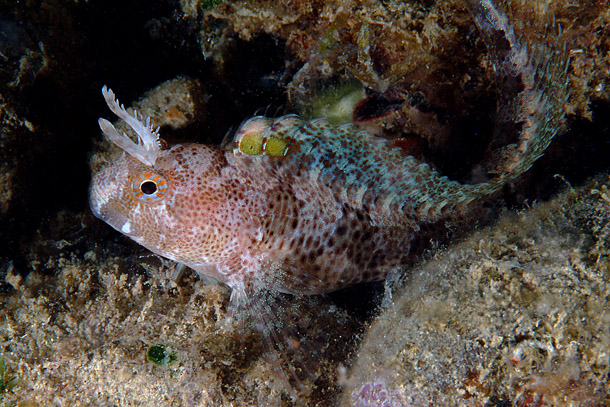 Parablennius tentacularis photographed on Livorno area (Tuscany, Italy). Photo by Stefano Guerrieri.